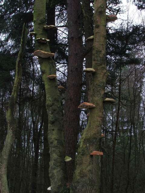 Fungi on Tree in Cropton Forest. Piptoporus betulinus [birch tree polypore], which infects and kills birch trees, and then produces its sporing brackets on the trunk and rots the wood. (Information supplied by ticket)